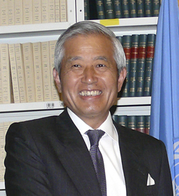 H. E. Mr. Yukio Takasu Ambassador Extraordinary and Plenipotentiary Permanent Representative of Japan. Photograph taken at the United Nations headquarters in New York. (This image cropped from the original.)